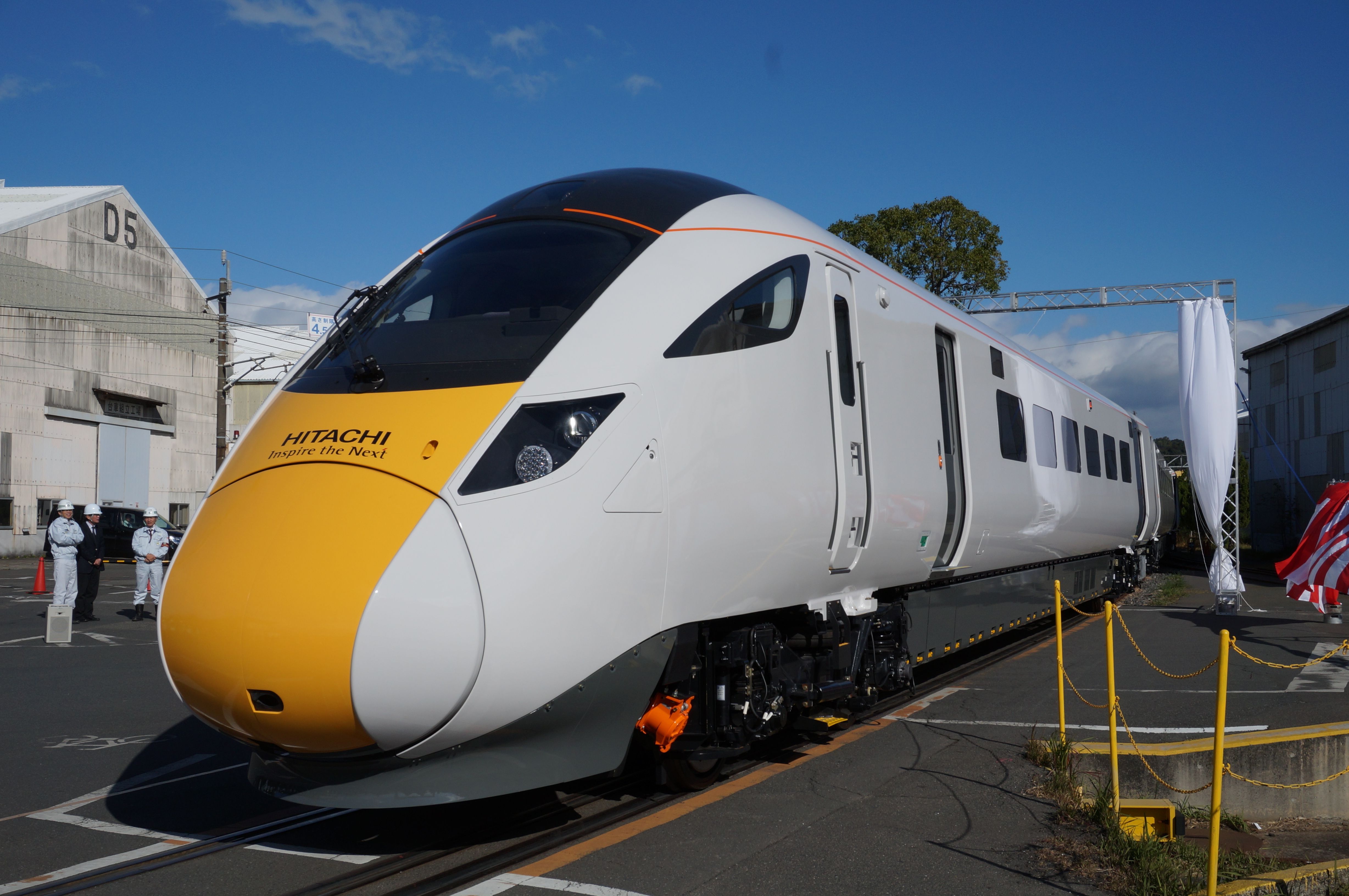 Hitachi Class 800 for the UK Intercity Express Programme. Hitachi classify these units as part of their AT300 family